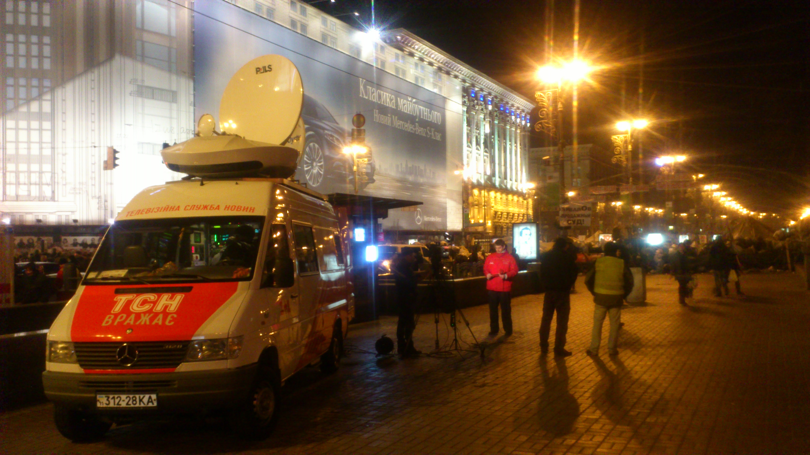 Euromaidan in Kiev February 19, 2014, night